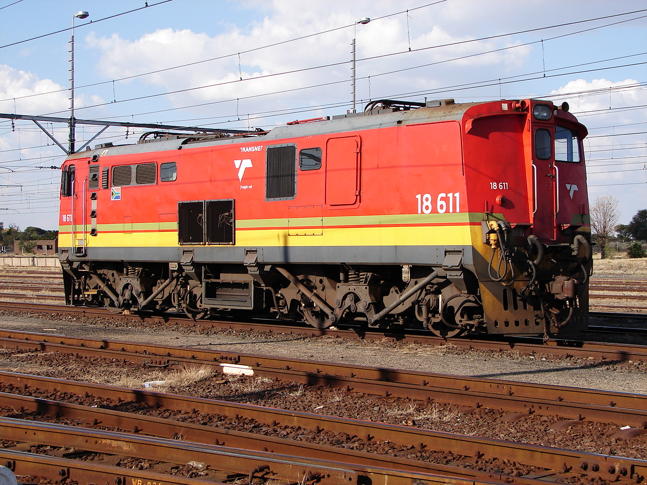 TFR Class 18E Series 2 18-611Location: Warrenton, Northern CapeHistory: Rebuilt in 2010 from Class 6E1 Series 6 E1677Renumbering: 18-611 was renumbered from 18-537 during its rebuilding when it was decided to number Series 2 locomotives from 18-600 up